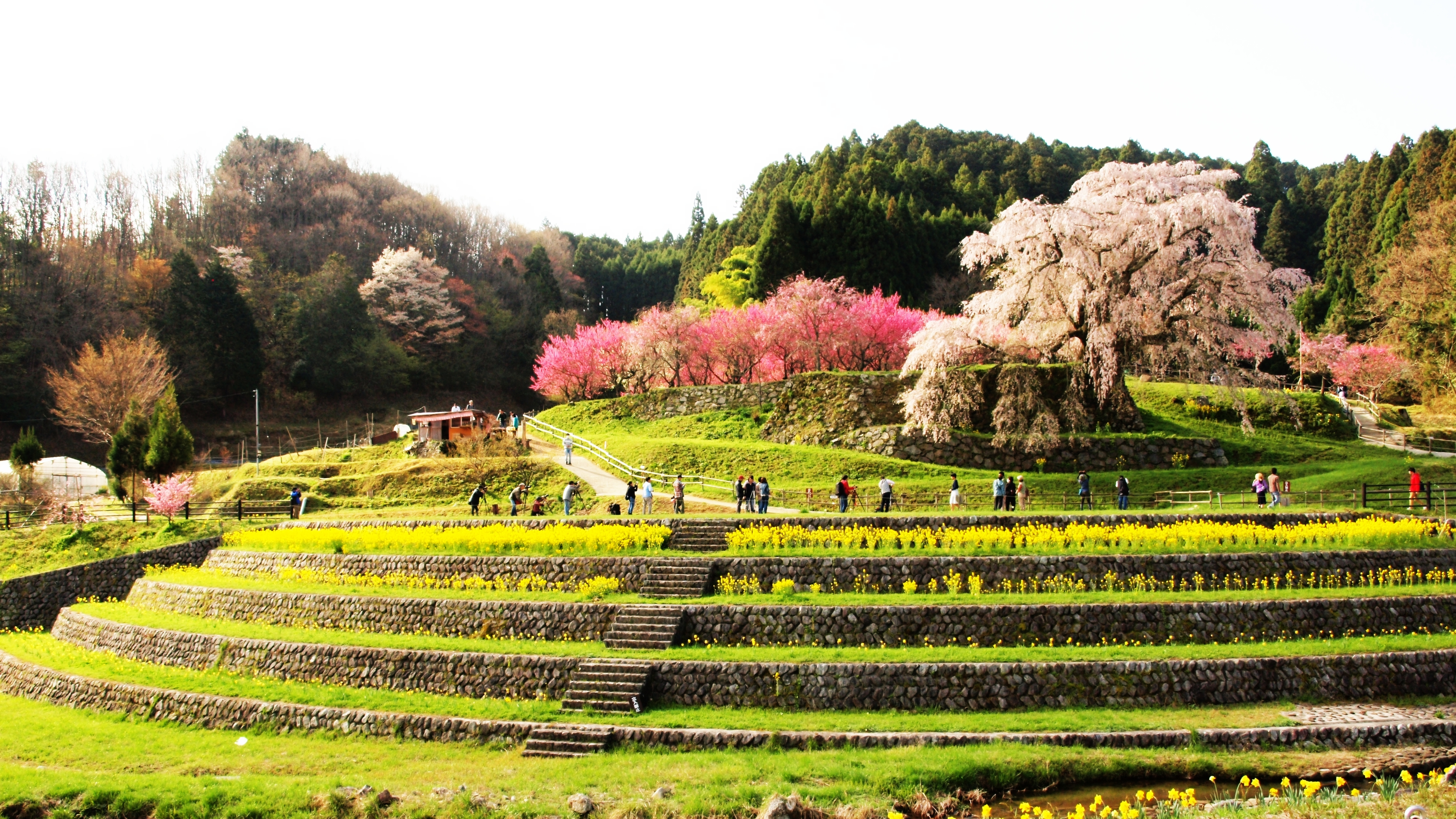 Matabee-zakura tree in Uda, Nara prefecture, Japan